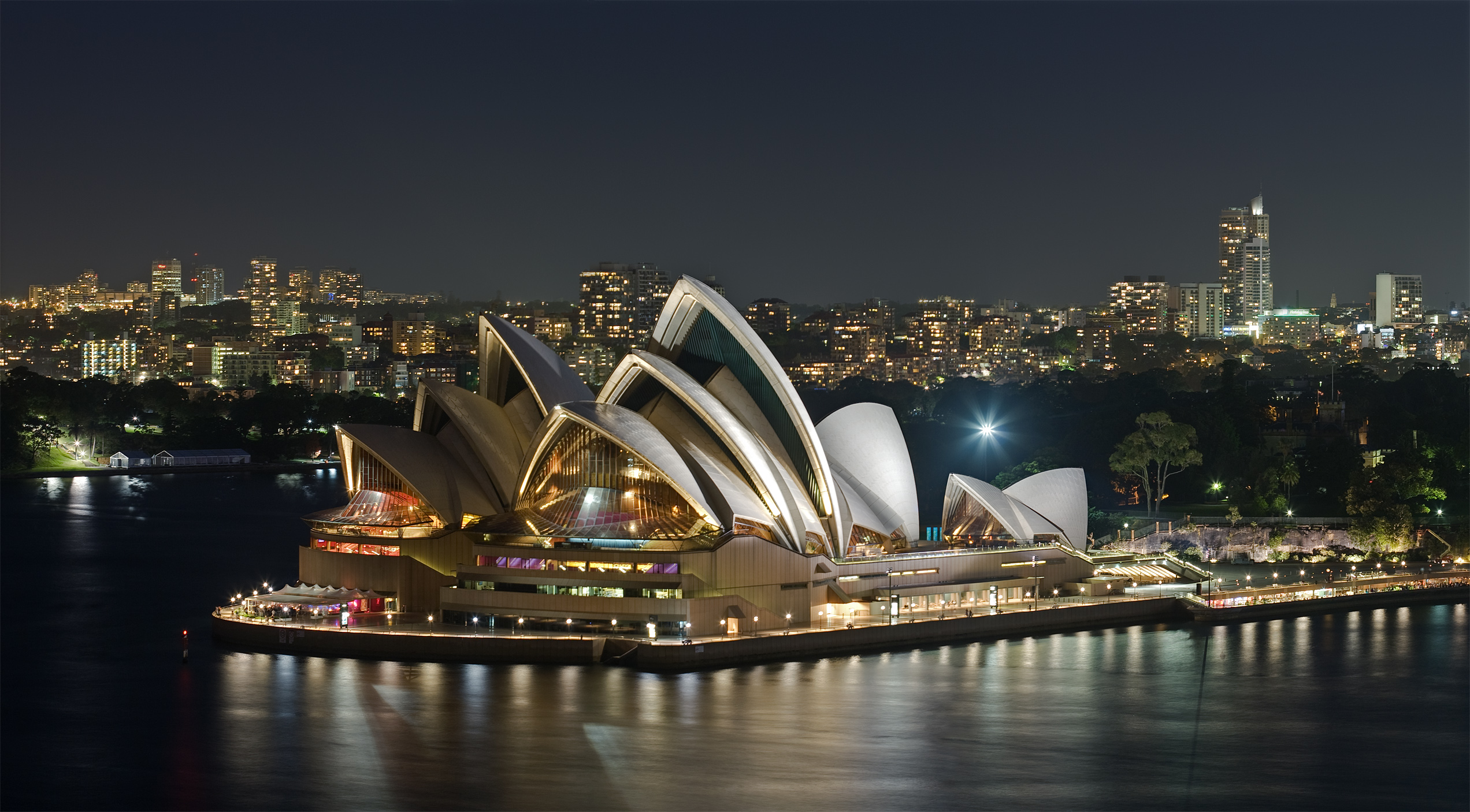 A exposure blended photo of the Sydney Opera House, as viewed from the Sydney Harbour Bridge. Taken by myself with a Canon 5D and 100mm f/2.8 macro lens.